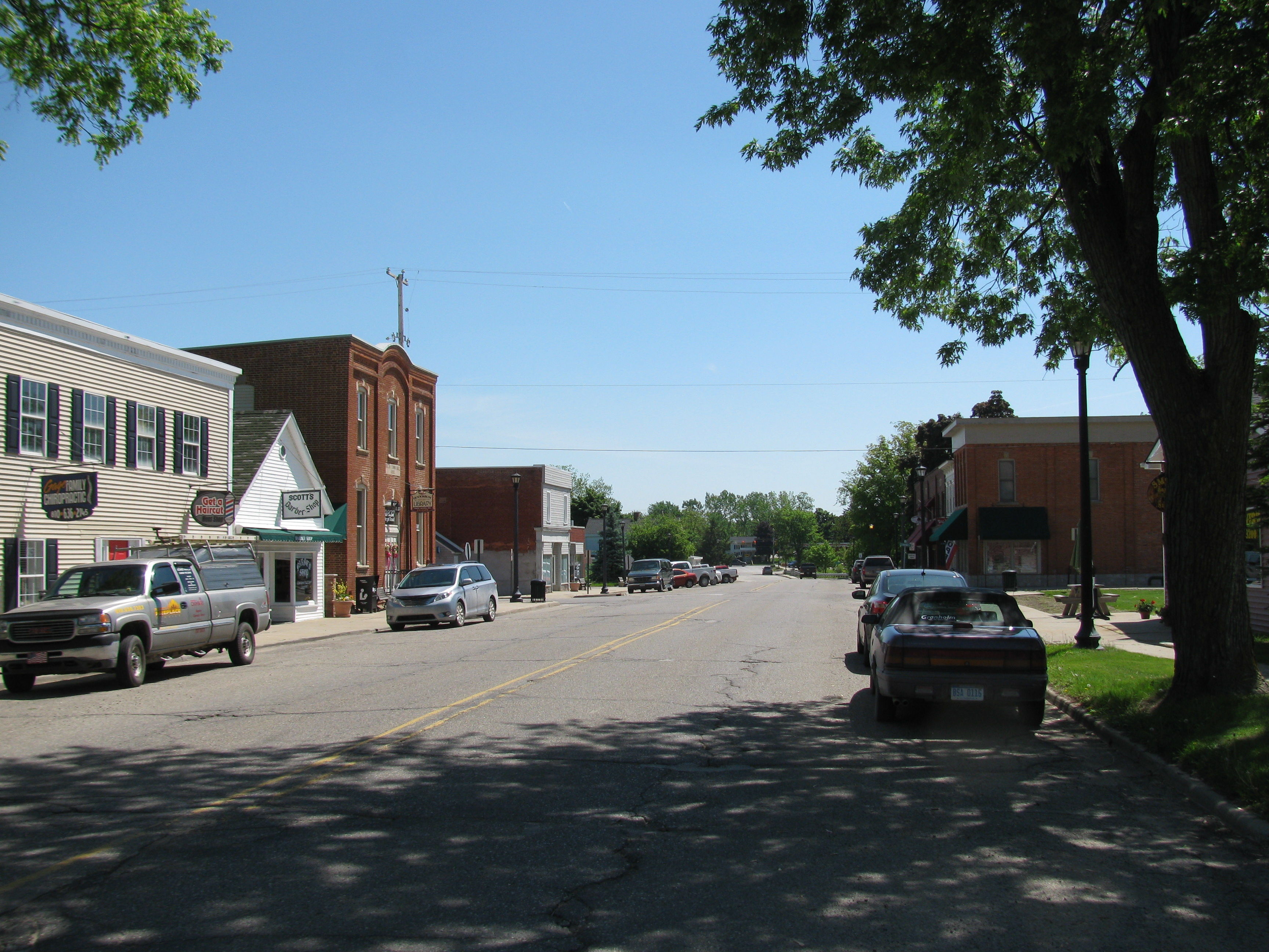 Goodrich, MI 2014